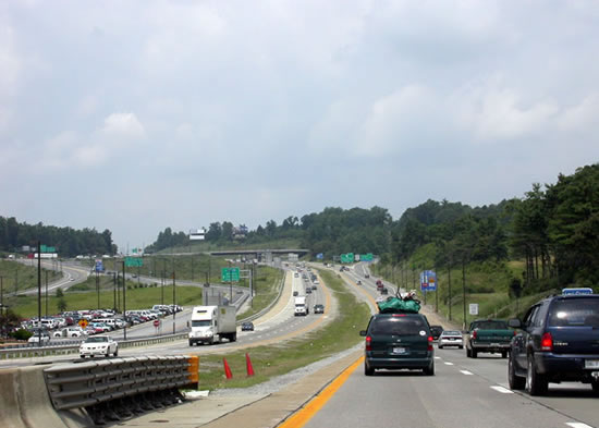 The West Virginia Turnpike in Raleigh County. The next interchange leads to the Beckley Service Area and the Tamarack.